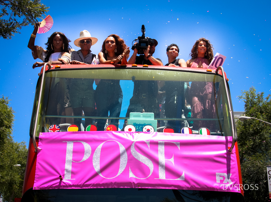 Stars from the show "Pose" at Los Angeles Pride Parade